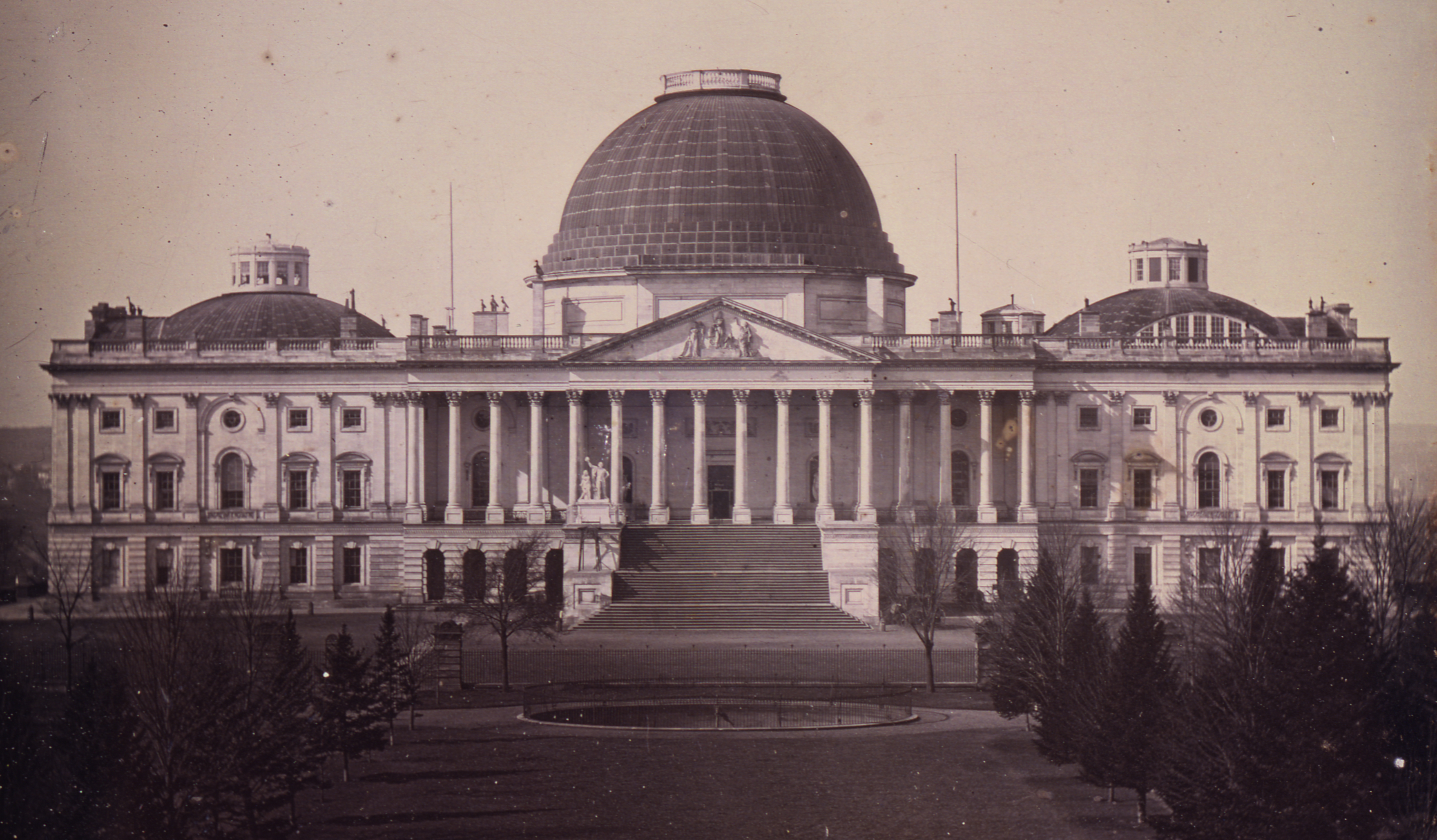 United States Capitol, Washington, D.C., east front elevation (derivative version of a digital file from color film copy transparency, post-1992, of a half plate daguerreotype)